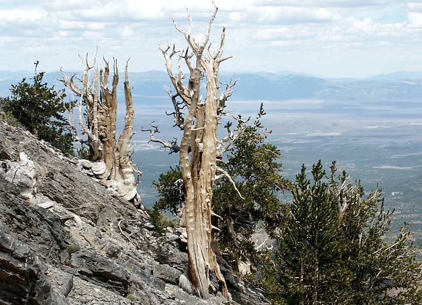 Bristlecone Pines on a spur ridge below Currant Mountain, looking east towards the north end of White River Valley; Egan Range at east.